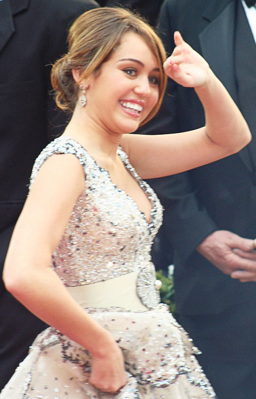 Miley Cyrus at the 81st Academy Awards.